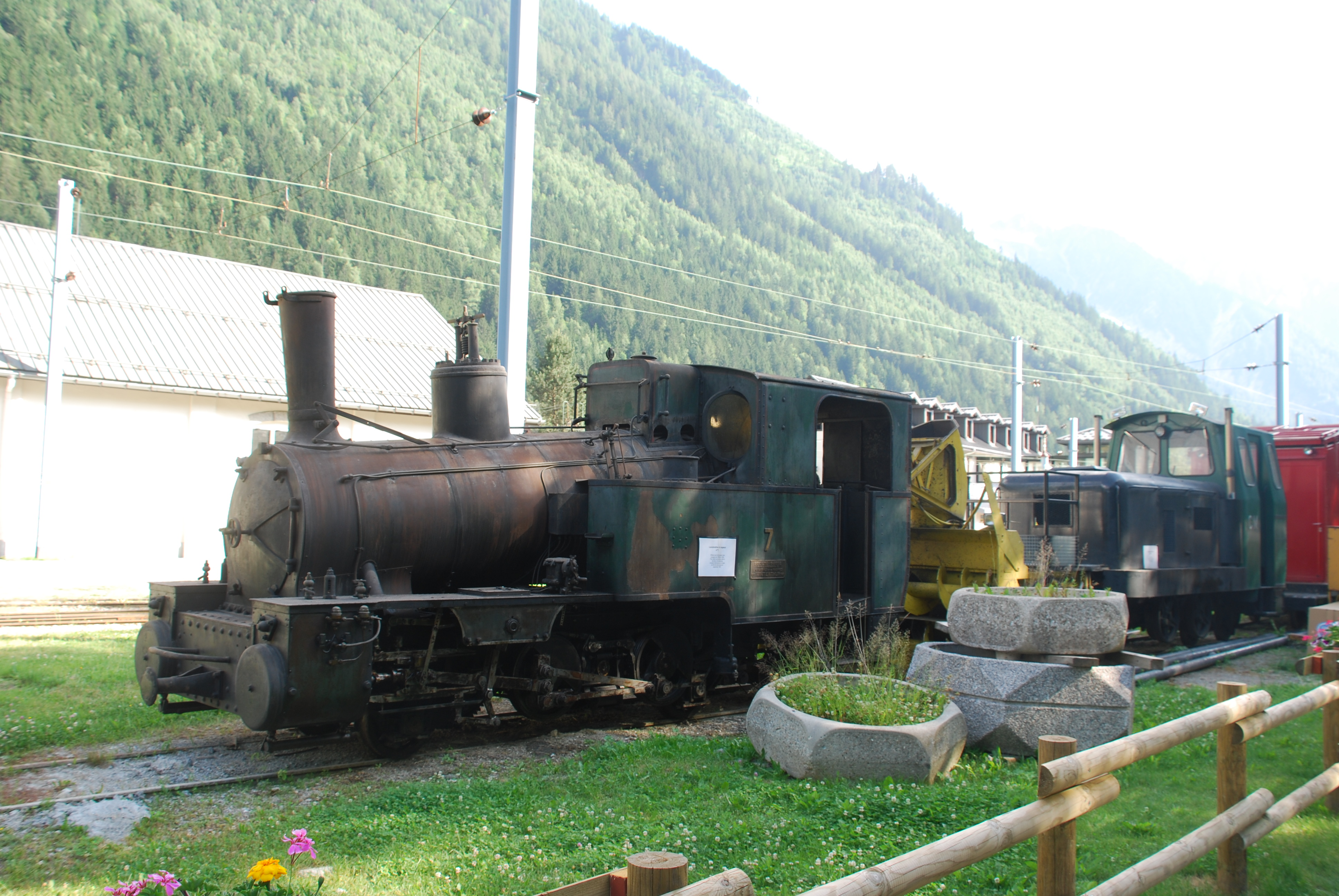 Steam locomotive #7 of the Montenvers railway.